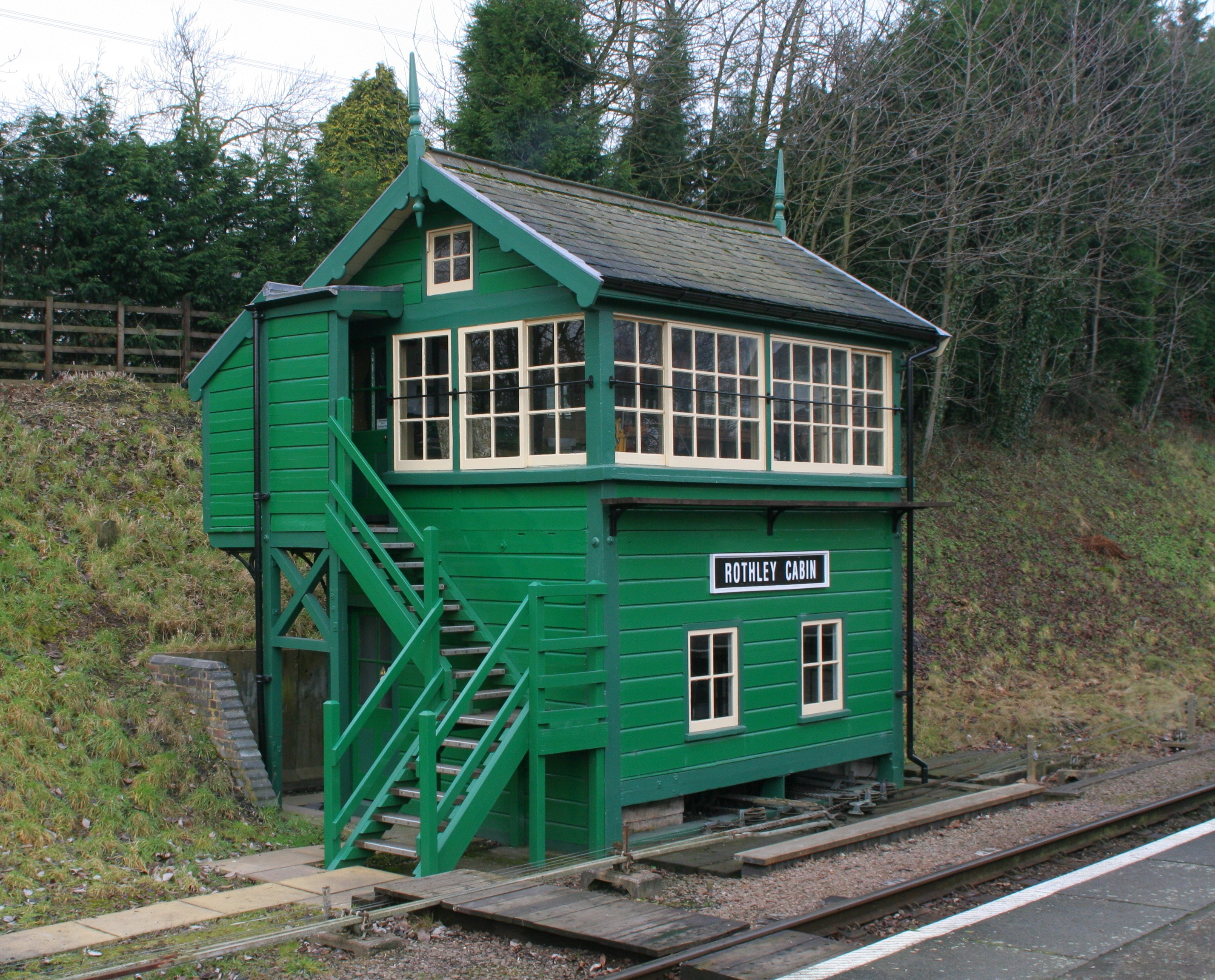 Rothley signal box on the preserved Great Central Railway. Originally from Blind Lane Junction in Wembley.